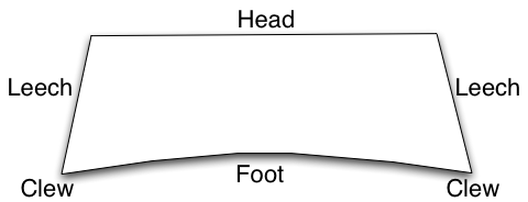 The parts (clew, head, etc) of a square sail. Created in Omnigraffle by Pete Verdon